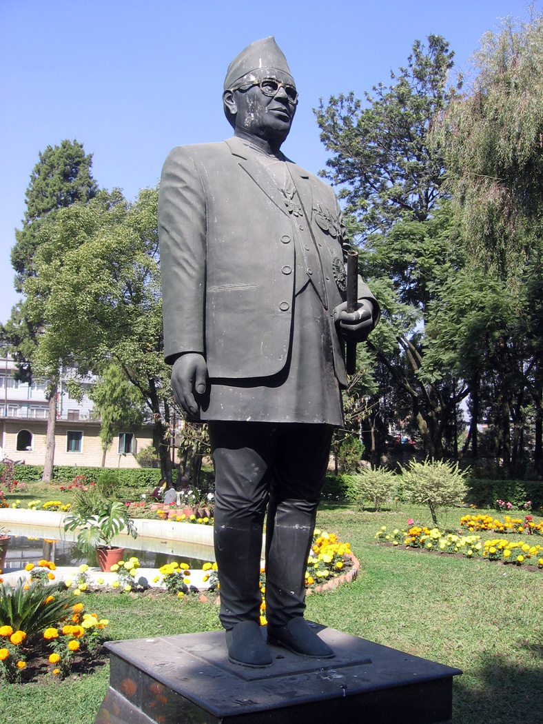 Statue of Nepalese engineer Kul Ratna Tuladhar (1918-1984) — on the campus of the Institute of Engineering, Kathmandu.